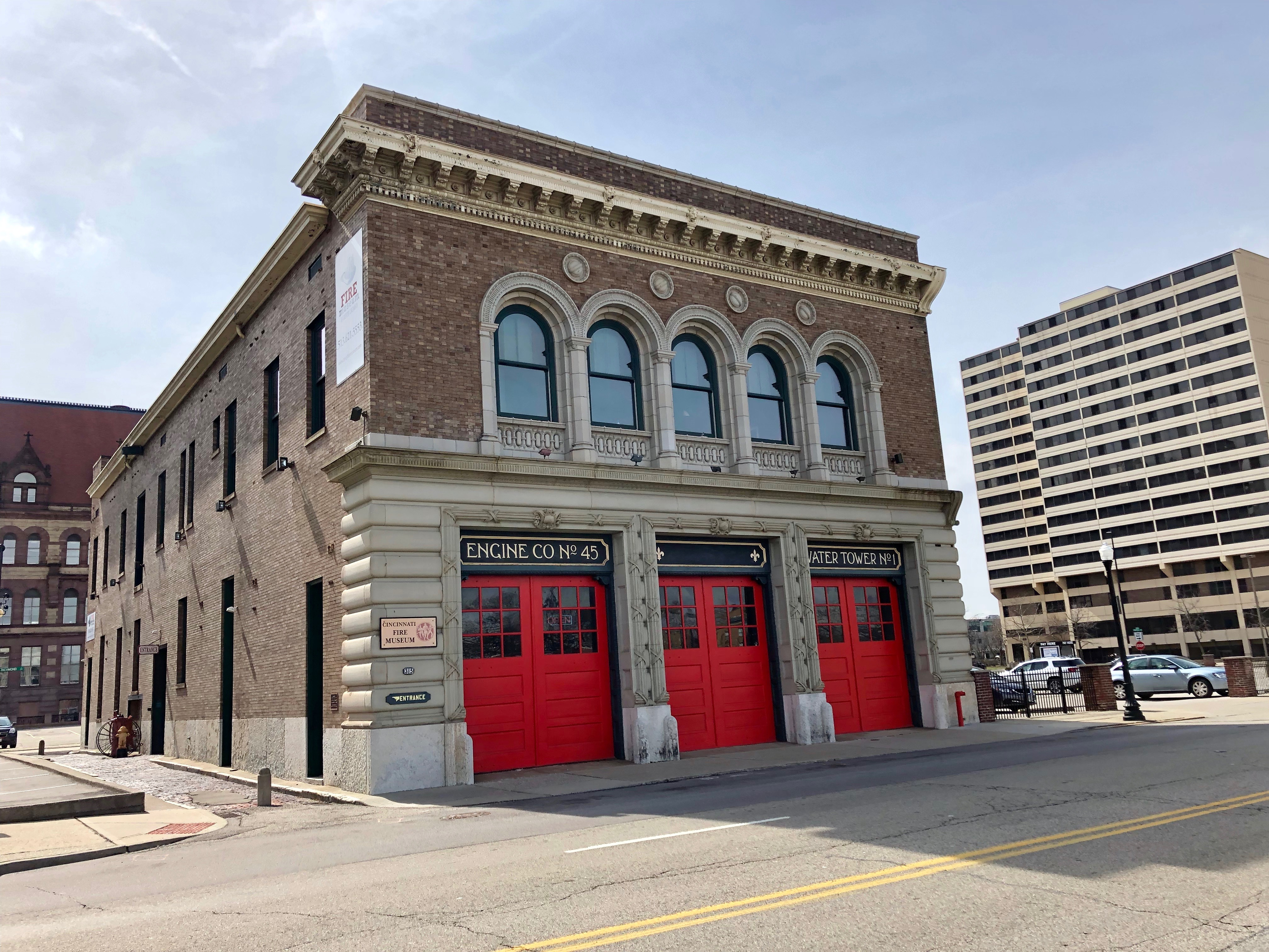 Downtown, Cincinnati, OH, USA